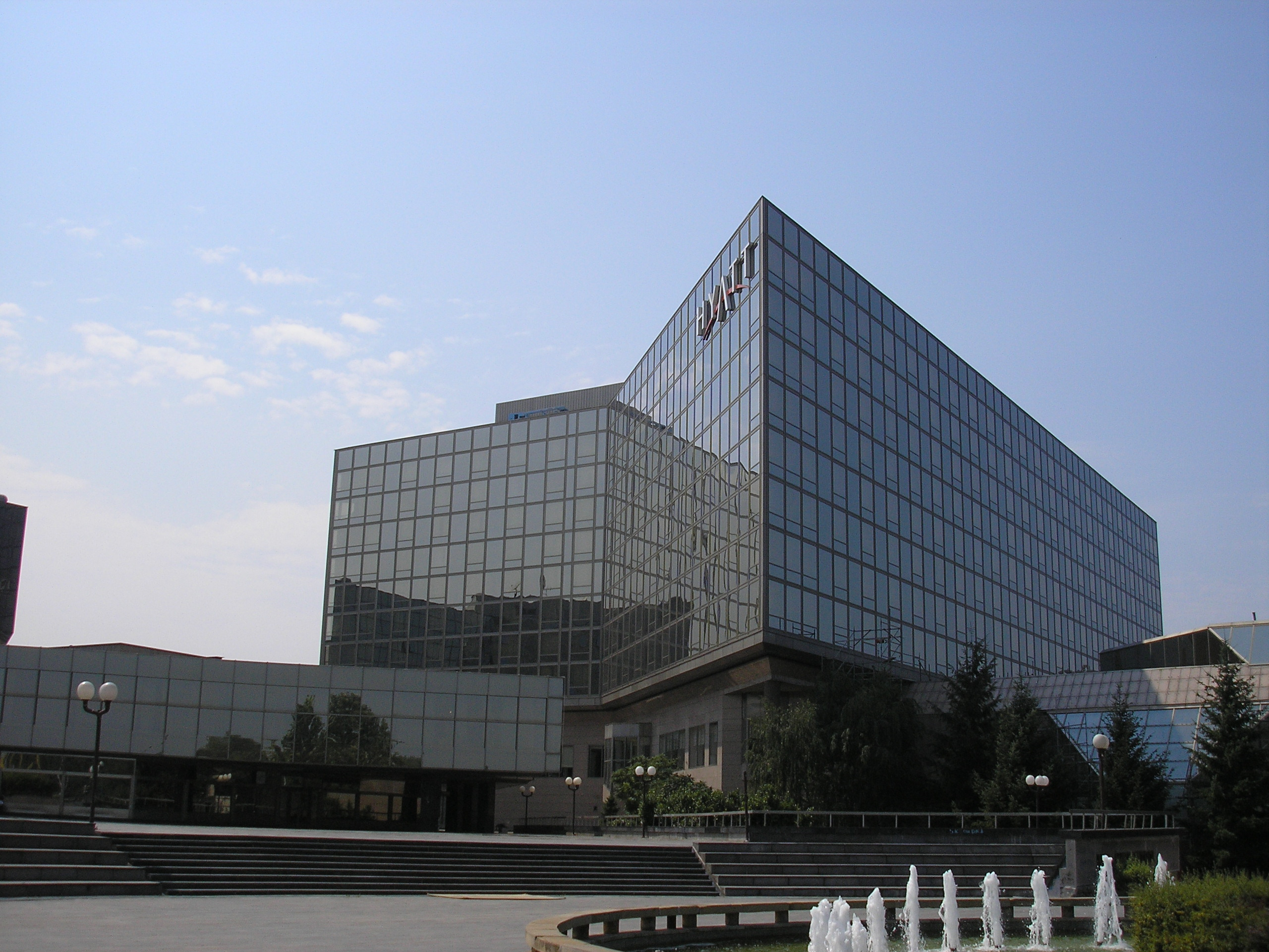 The image of Hotel Hyatt on Novi Beograd